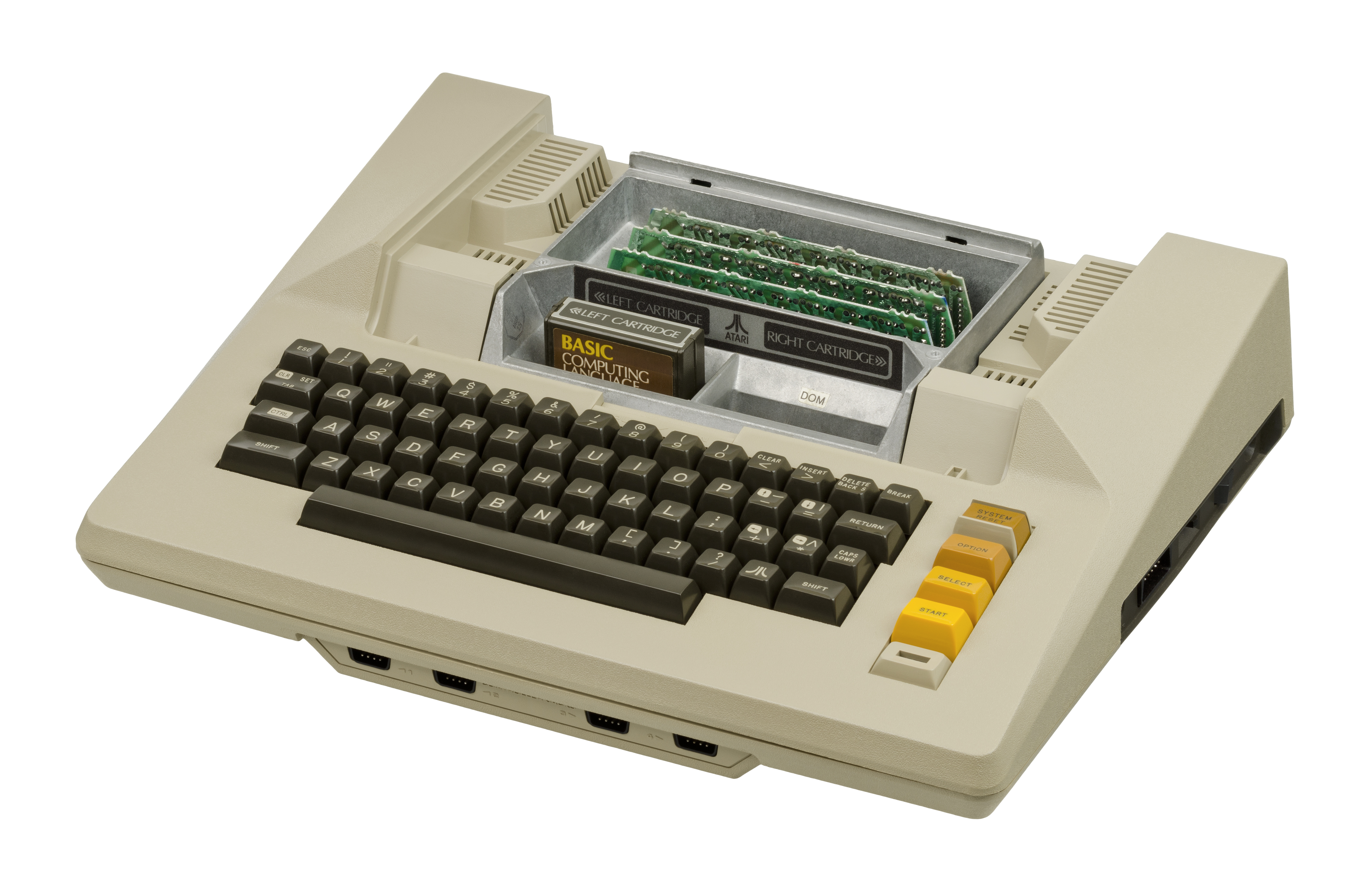 The Atari 800, an 8-bit computer released by Atari in 1979. Based off the MOS 6502 microprocessor and custom video and sound processors, the Atari 800 was the first in a line of popular home computers. Later models include the 600XL, 800XL 65XE and 130XE, which featured various amounts of memory and expansion capability. This picture shows the Atari 800 with the top expansion cover removed.